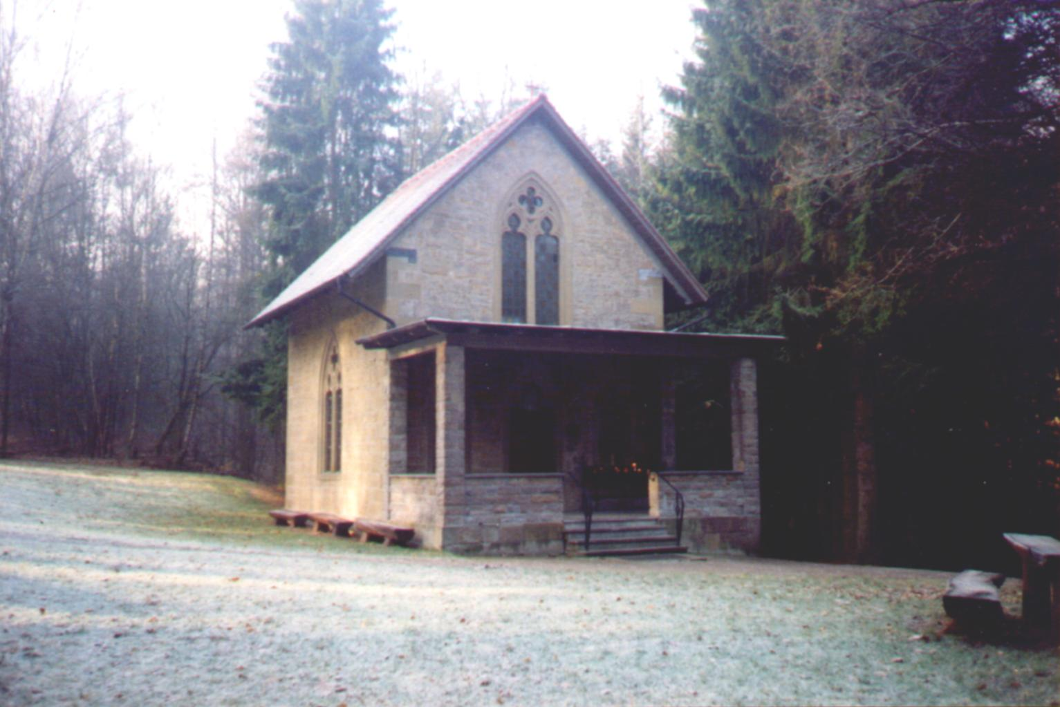 Chapel "Terzenbrunn" in Arnshausen, a quarter of the German spa town of Bad Kissingen in Lower Franconia.